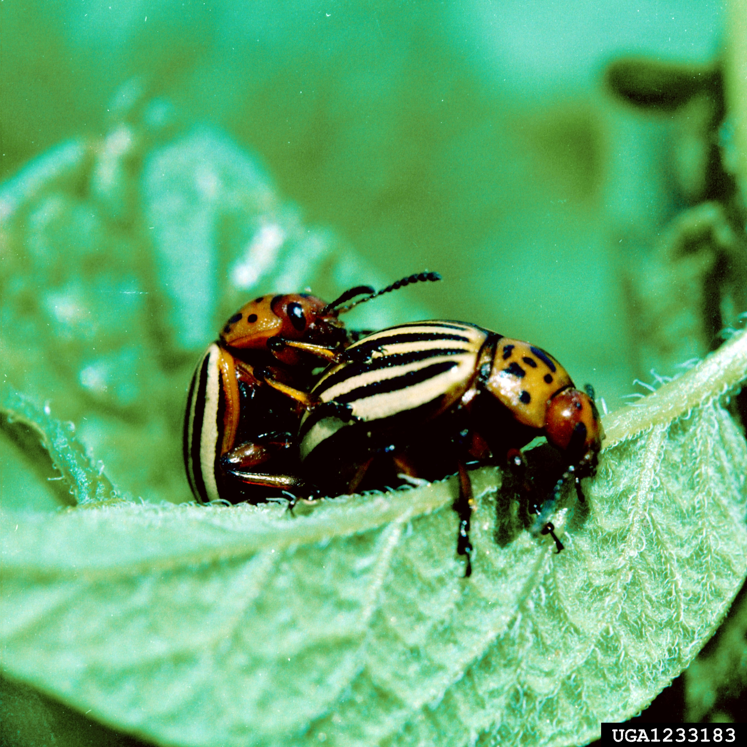 Colorado potato beetle Leptinotarsa decemlineata (Say, 1824), matingAccouplement de doryphores (Leptinotarsa decemlineata, Chrysomelidae)